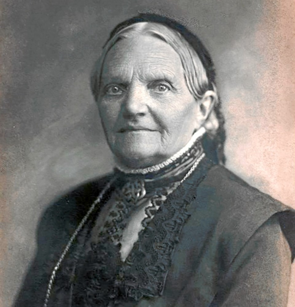 Photograph of the 19th-century Danish high school proponent and women's rights activist Jutta Bojsen Møller, 1837-1927.